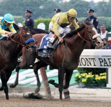 Union Rags and jockey John Velazquez on the inside. Paynter (9) and Mike Smith 2nd, Atigun (4) and Julien Leparoux 3rd